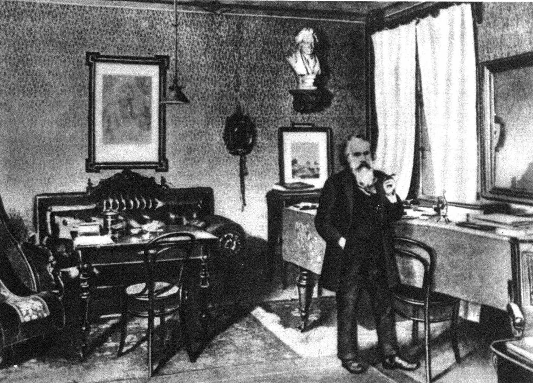 Johannes Brahms (1833–1897) at his home in Vienna, Karlsgasse 4